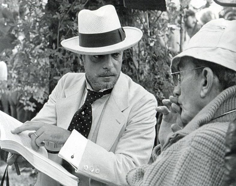 Giancarlo Giannini and Luchino Visconti